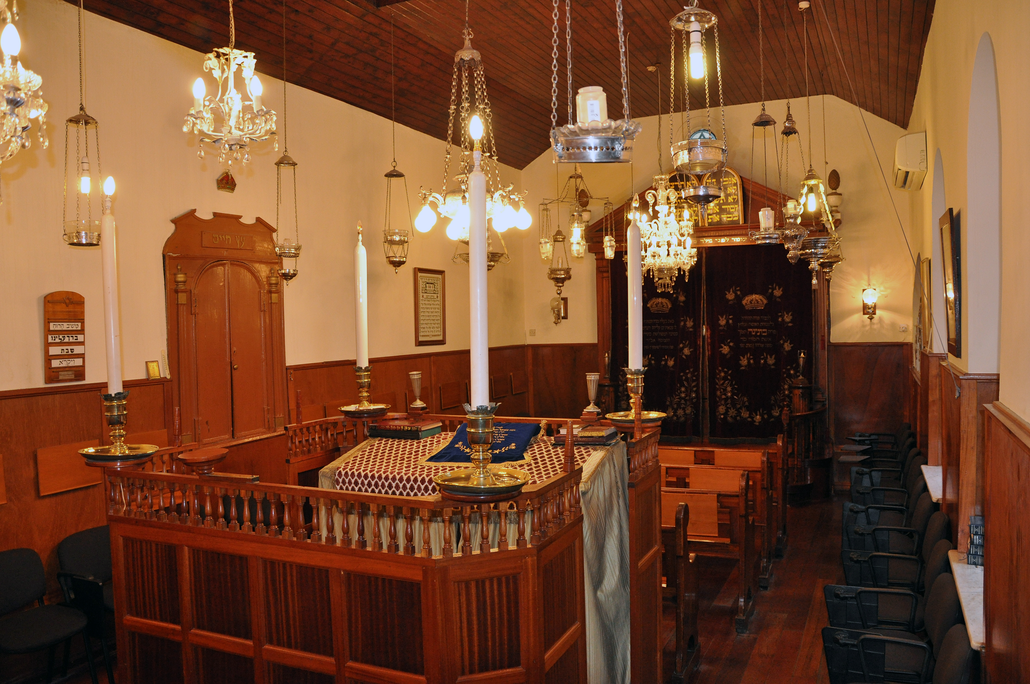 Inside Little Synagogue), Irish Town, Gibraltar